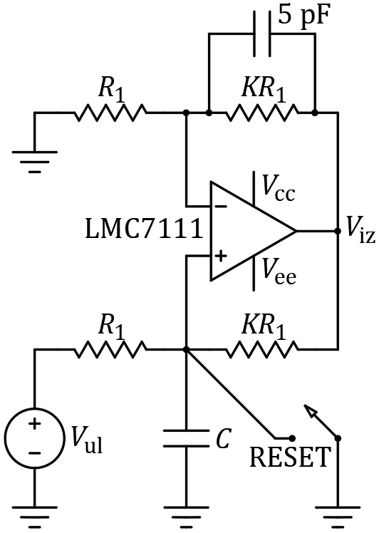 Howland Integrator